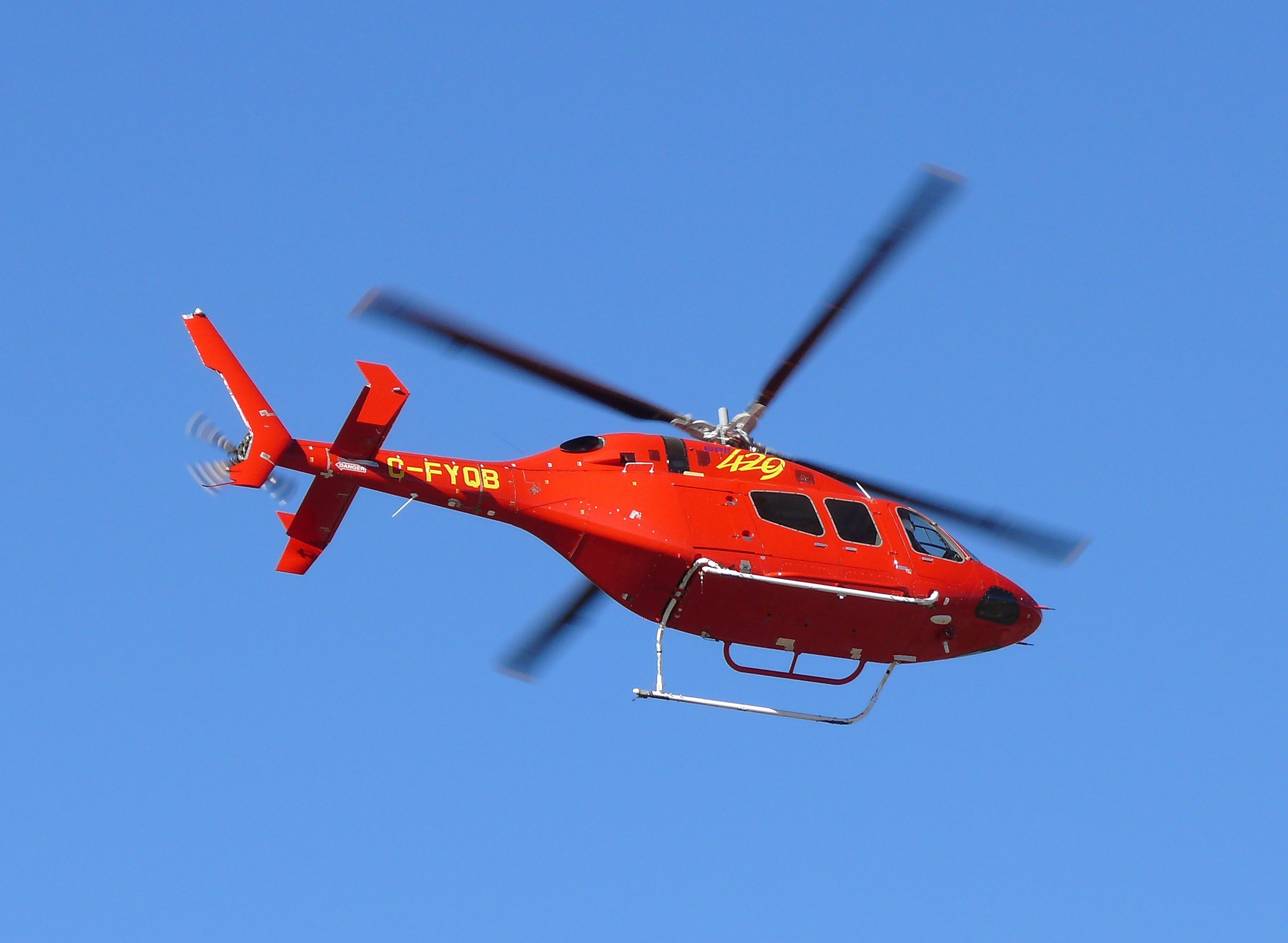 Bell 429 making high altitude tests at Leadville airport.